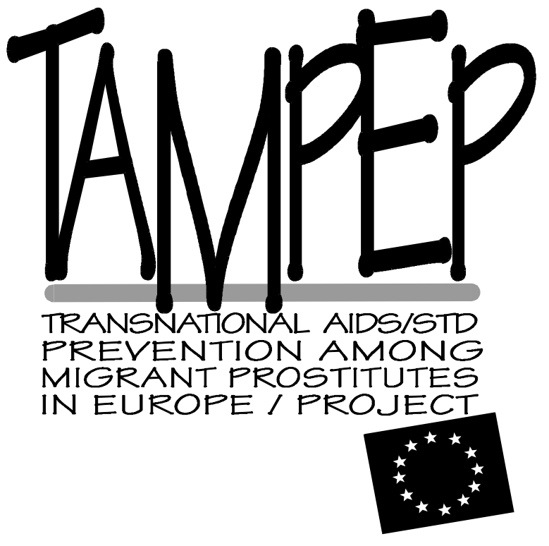 A logo of TAMPEP (Transnational AIDS/STI prevention amongst Migrant Prostitutes in Europe Project) used until at least 2004.